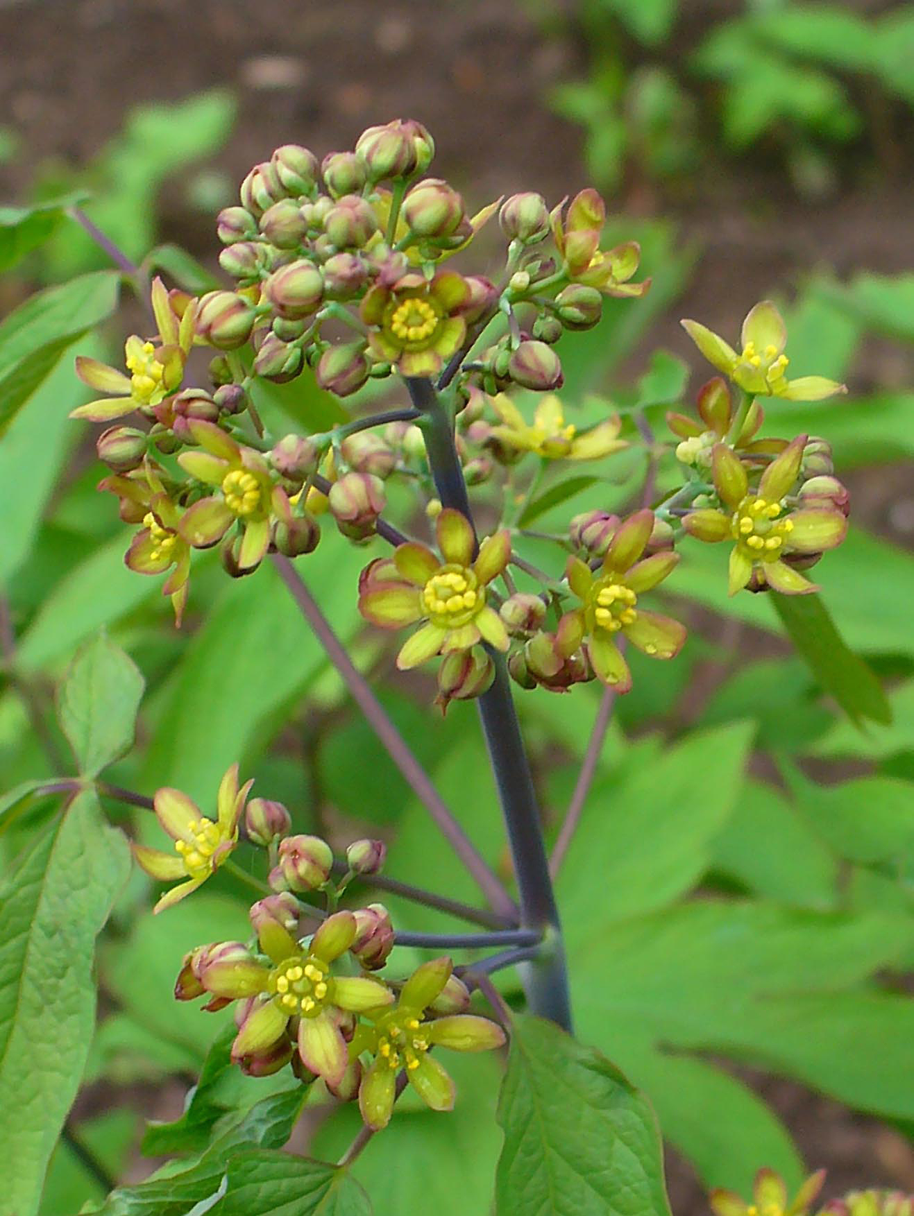 Caulophyllum thalictroides, Blue cohosh, inflorescence; Stutensee, Germany